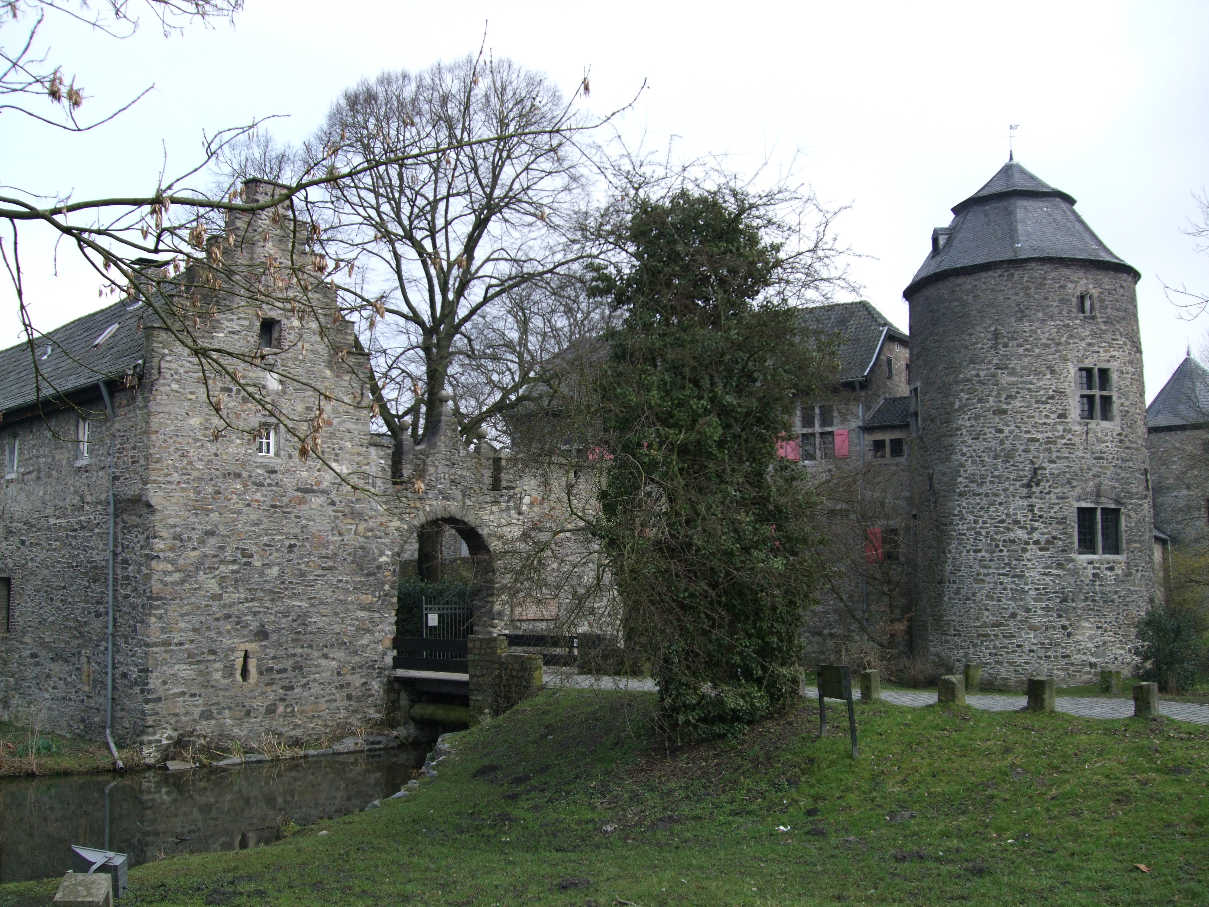 Wasserburg Haus zum Haus, Ratingen, Germany